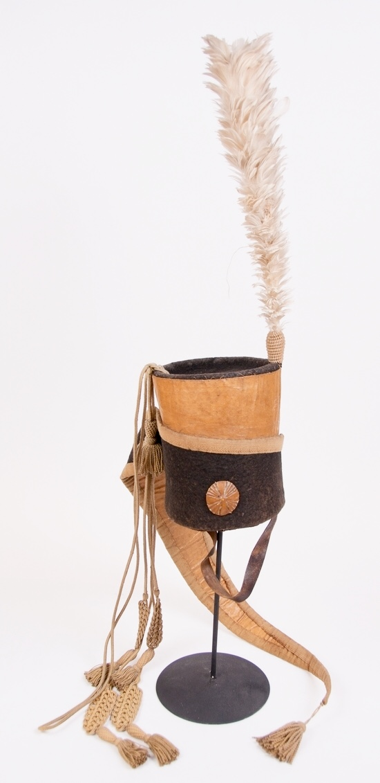 Flügelmütze worn by troopers of the Småland husar regiment,1820s.